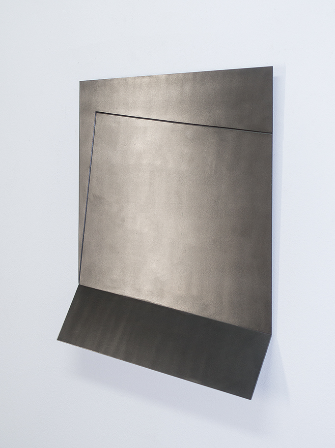 Wall sculpture Steel Sheet, Heiner Thiel, 1994